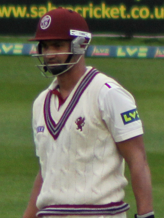 South African Alviro Petersen batting for Somerset during their 2013 County Championship match against Warwickshire at the County Ground, Taunton